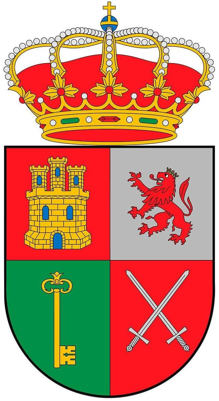 flag of the village from los villares, in jaen